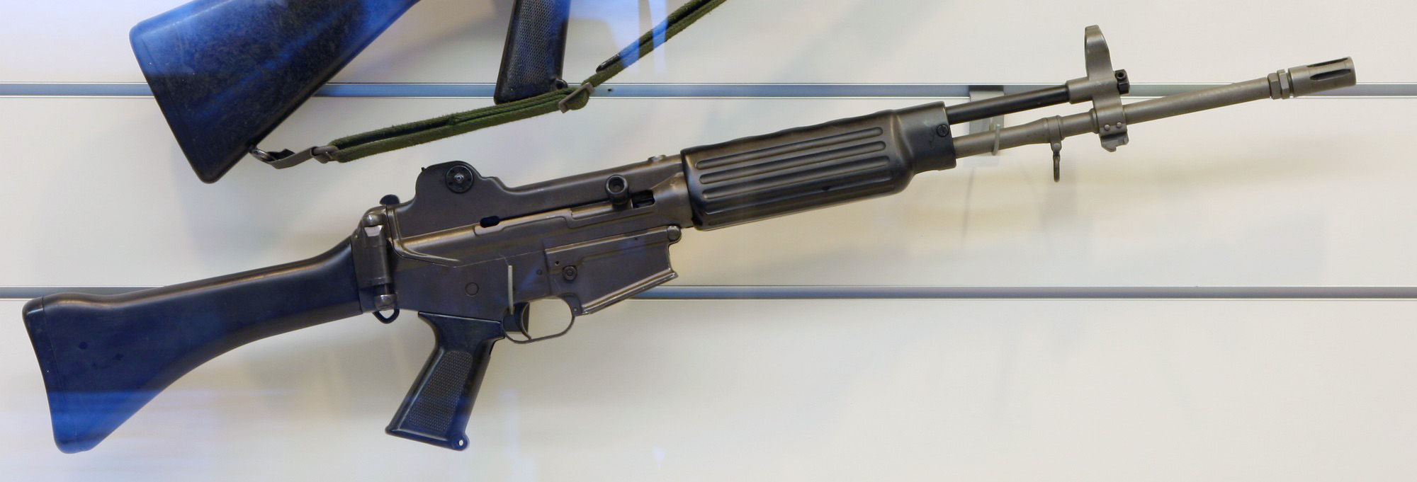 Daewoo K2 rifle at the War Memorial of Korea